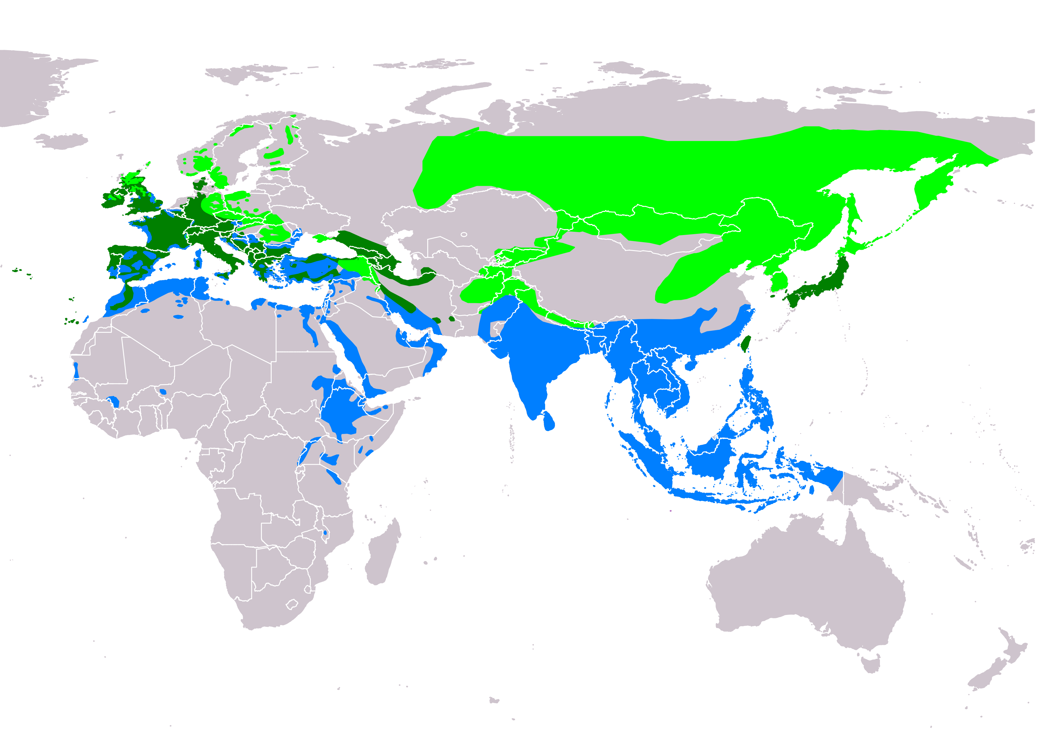 Map of Grey Wagtail Motacilla cinerea, according to IUCN 2018.2. Legend: Breeding summer visitor (#00ff00), Breeding resident (#008000), Non-breeding winter visitor (#007fff)